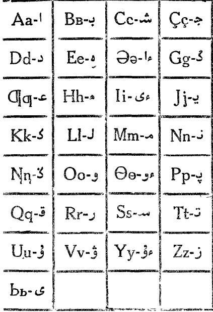 Kazakh latin alphabet from ABC-book (1931)